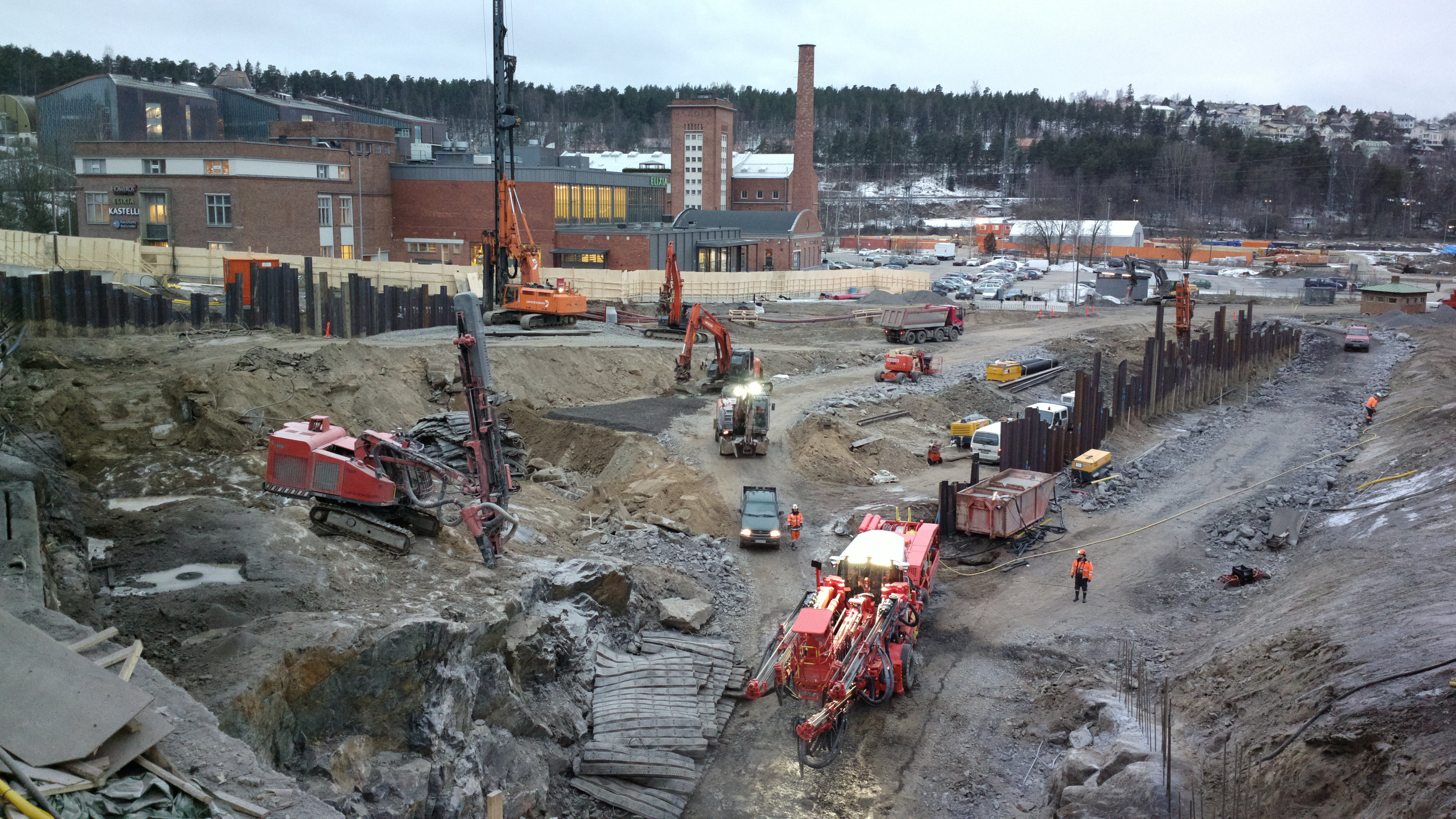 Rantaväylä tunnel construction site at Santalahti